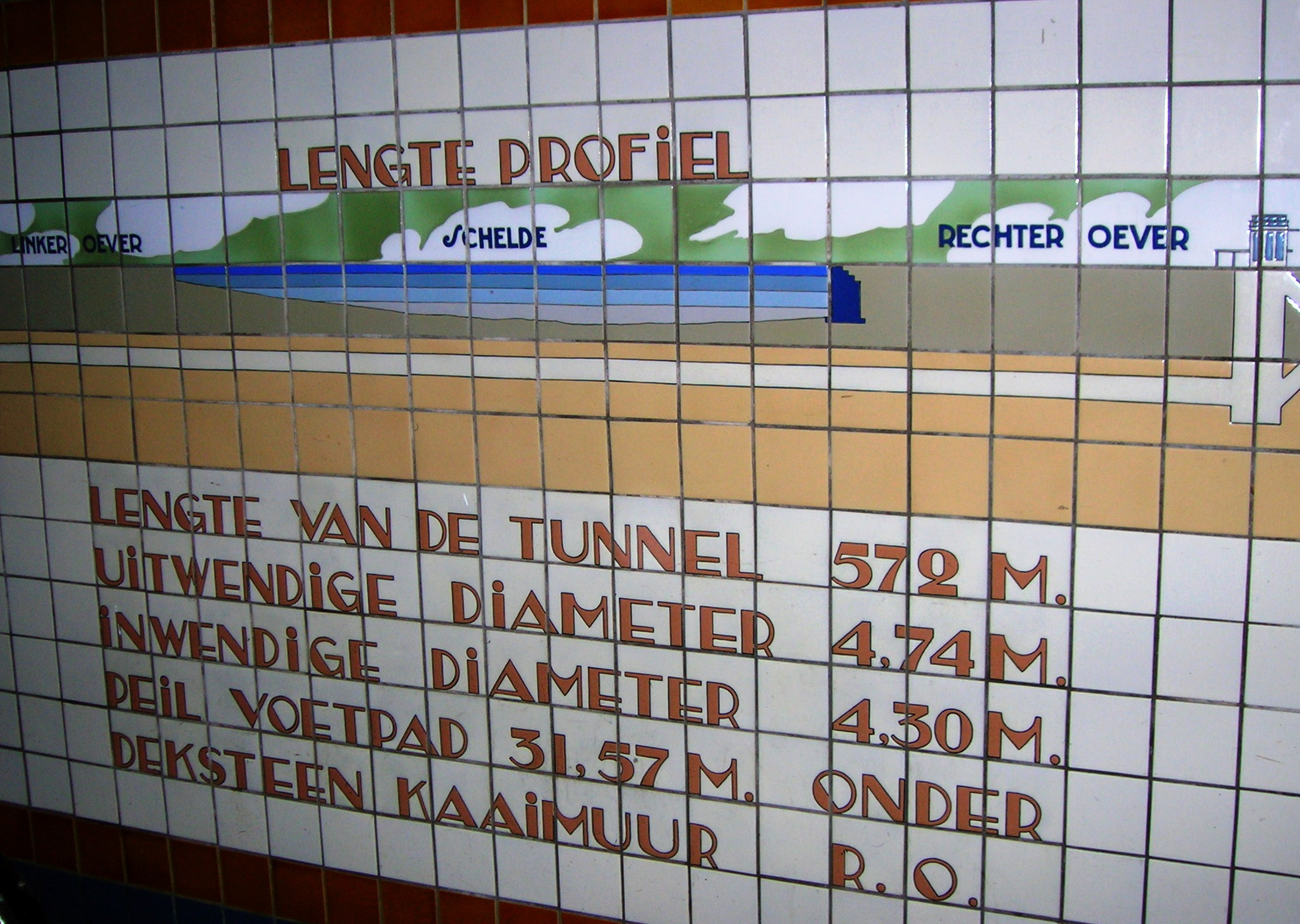 Pedestrian tunnel.